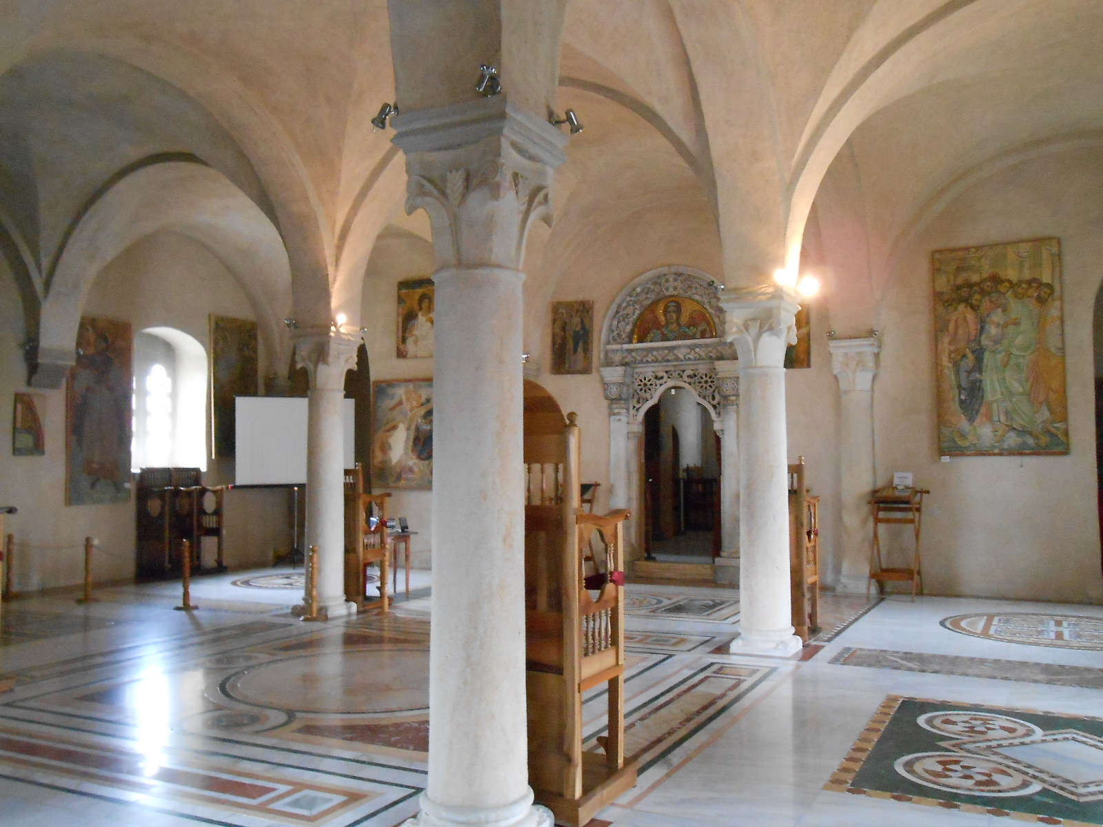 Nartex of Žiča Monastery